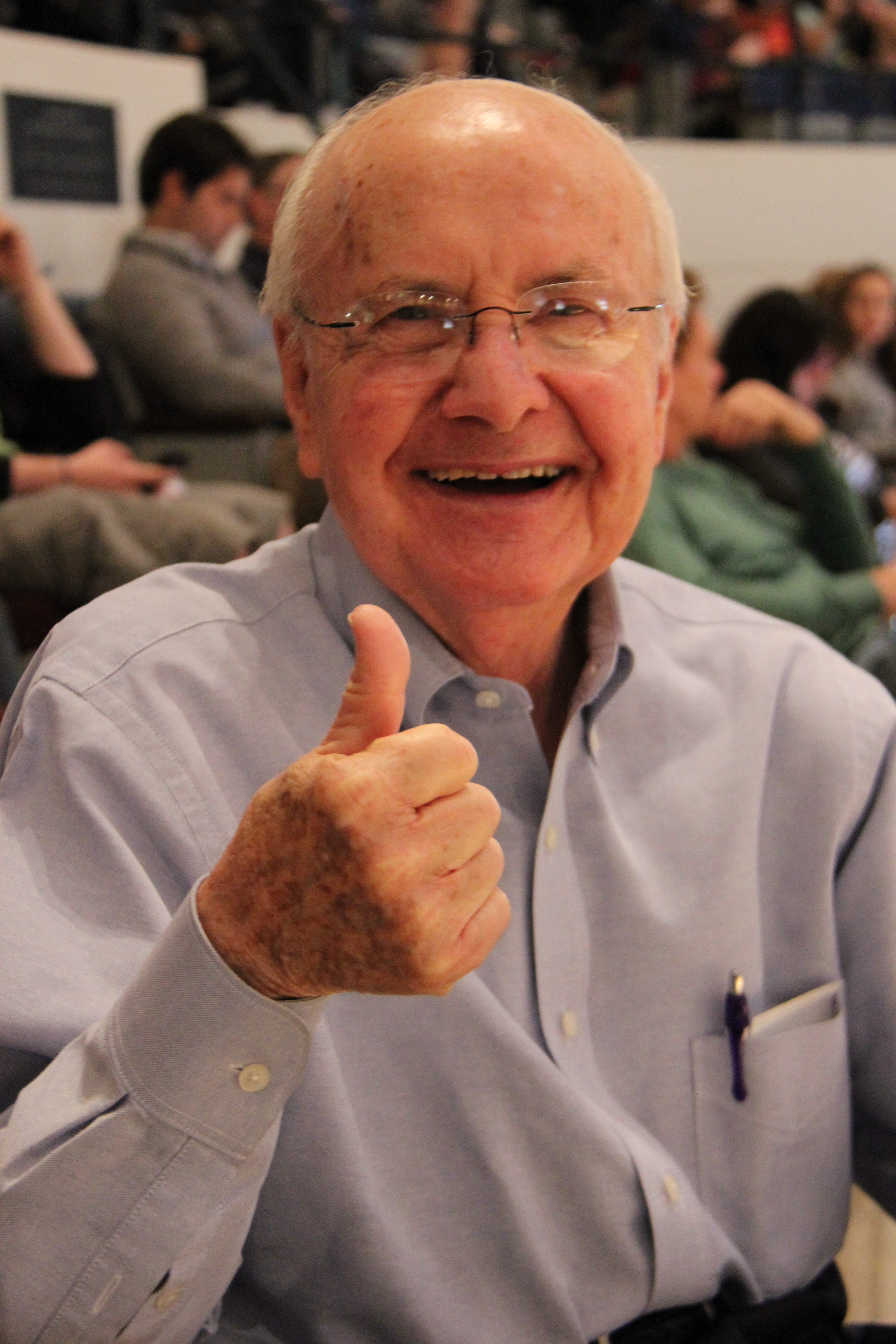 Bob Hunter in chapel at ACU in 2014